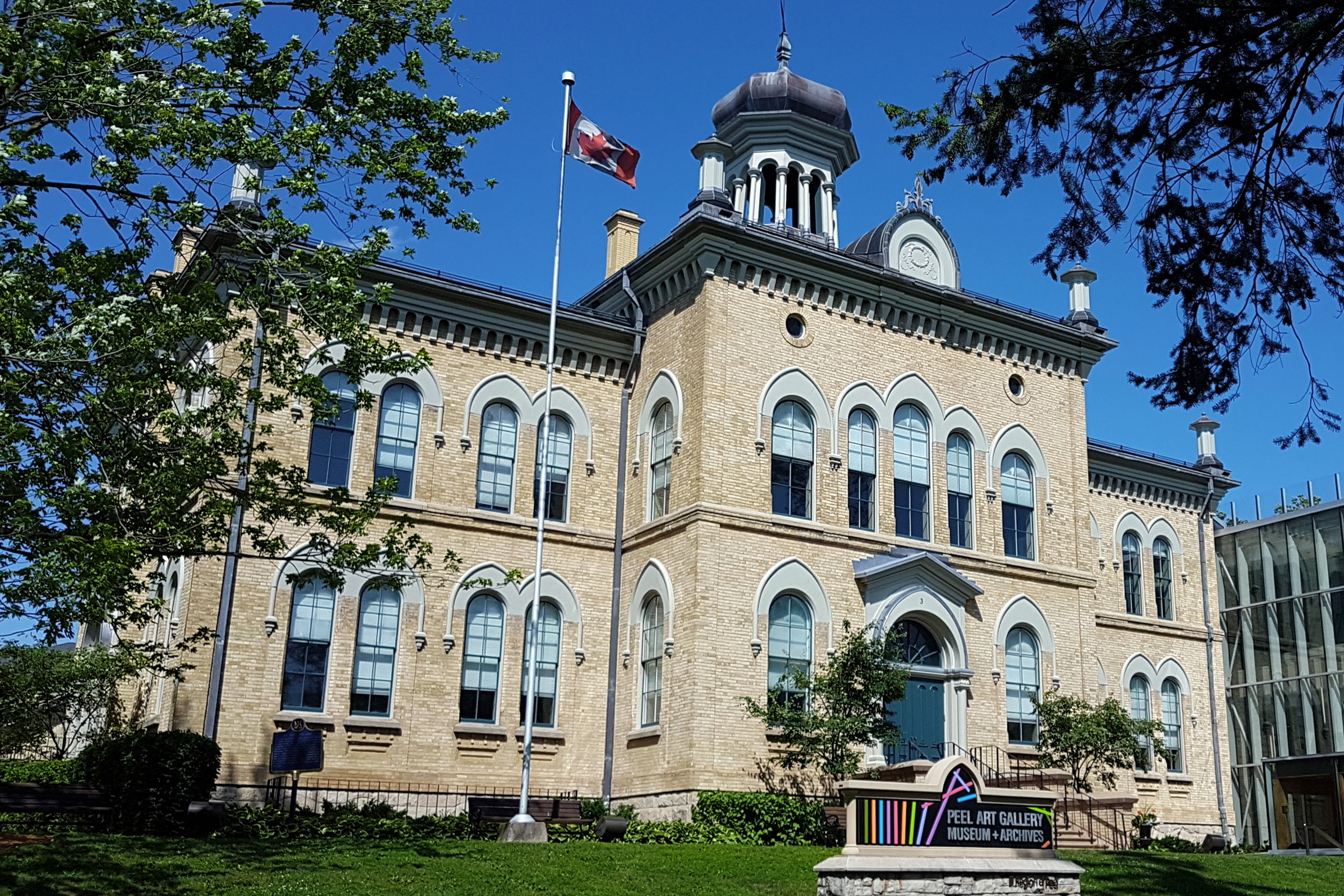 PAMA building